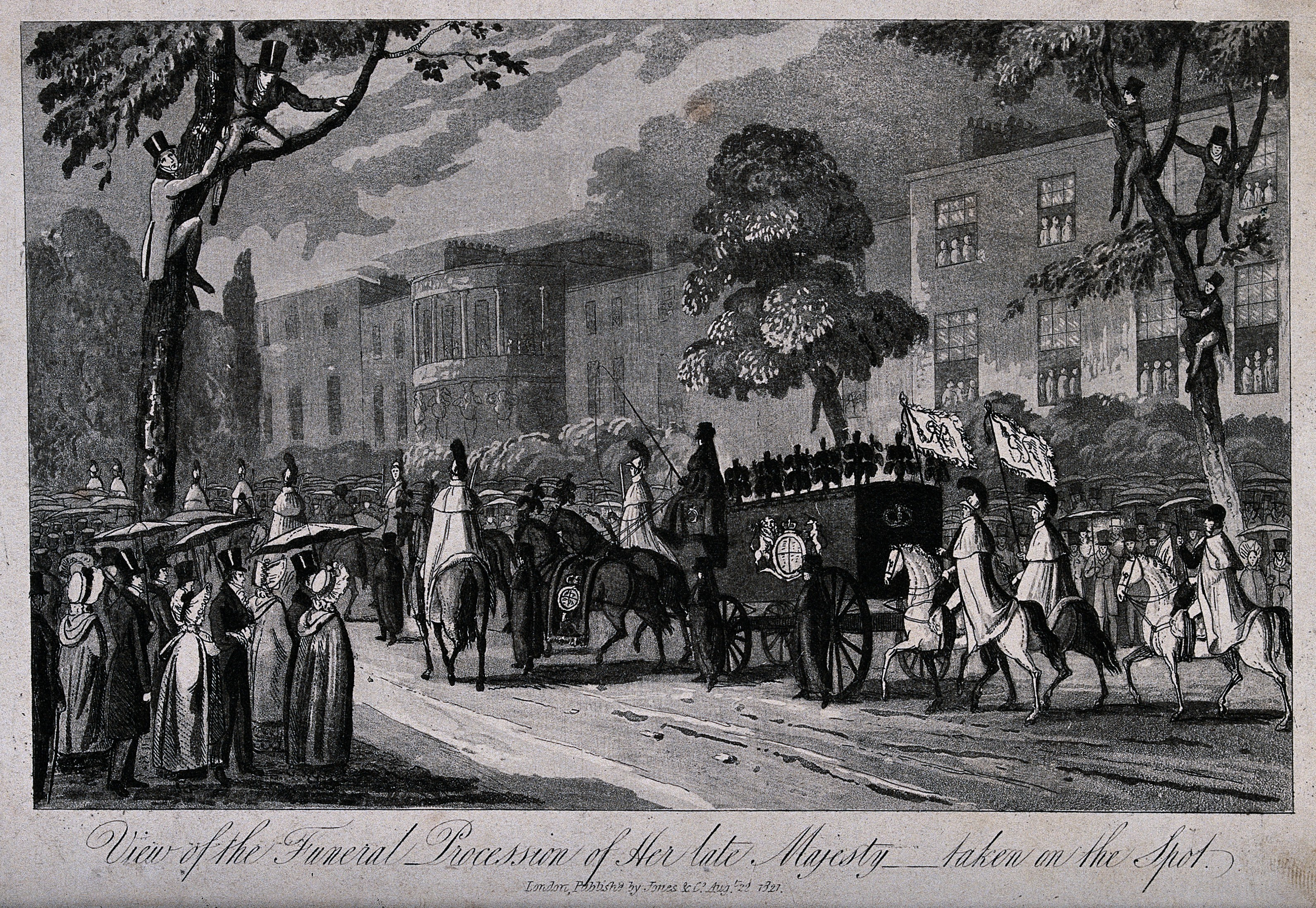 Funeral procession of a Queen, possibly Queen Caroline. Aquatint, 1821. Iconographic Collections